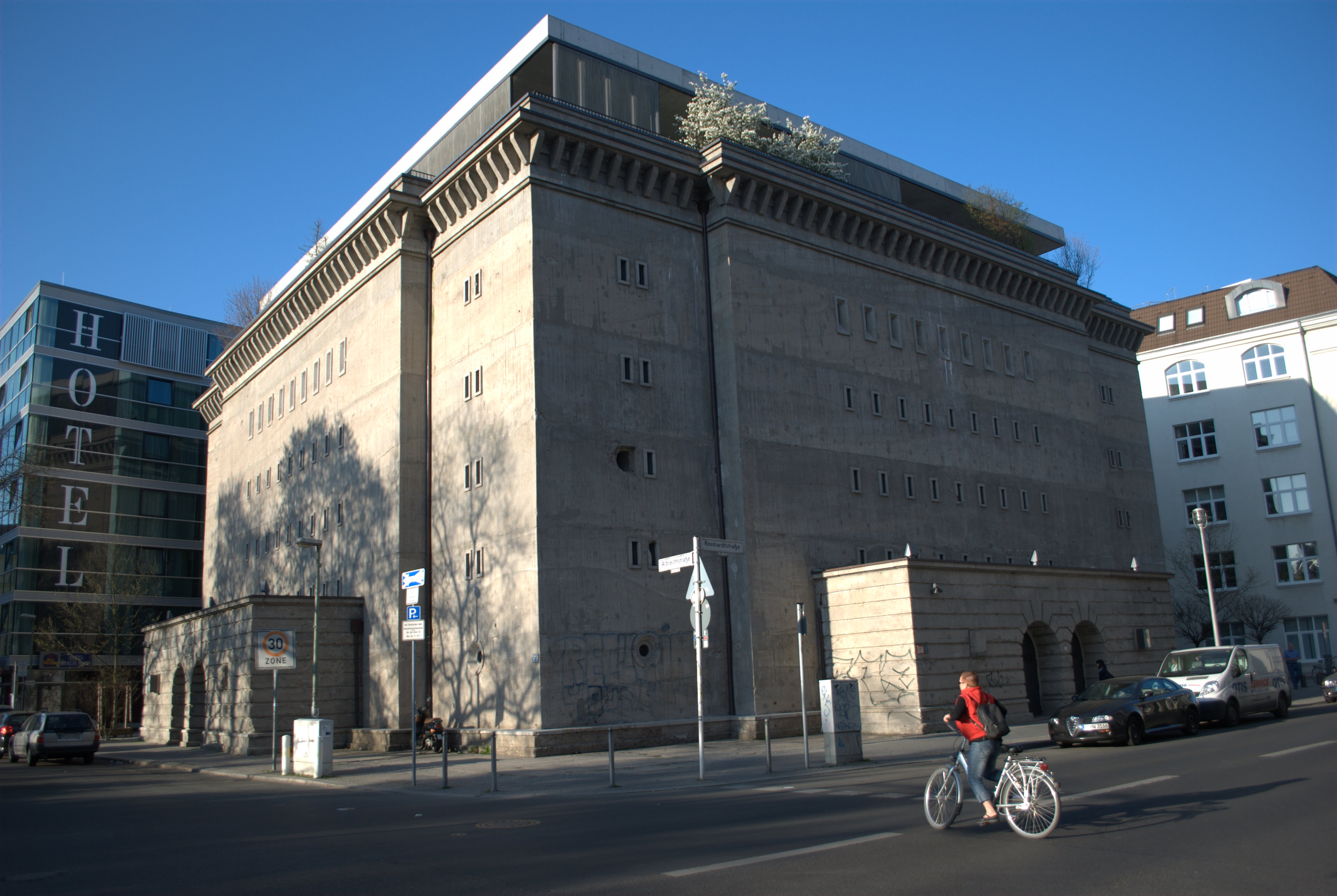 The Bunker on the Reinhardtstraße (Berlin)